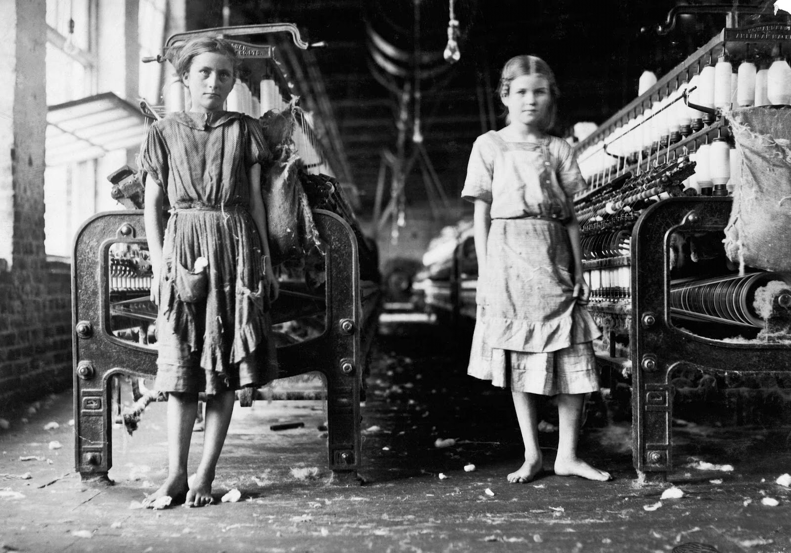 Spinners in a cotton mill